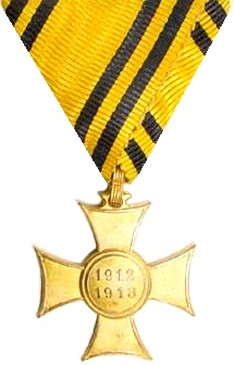 Austrian Mobilasation Cross 1912 1913